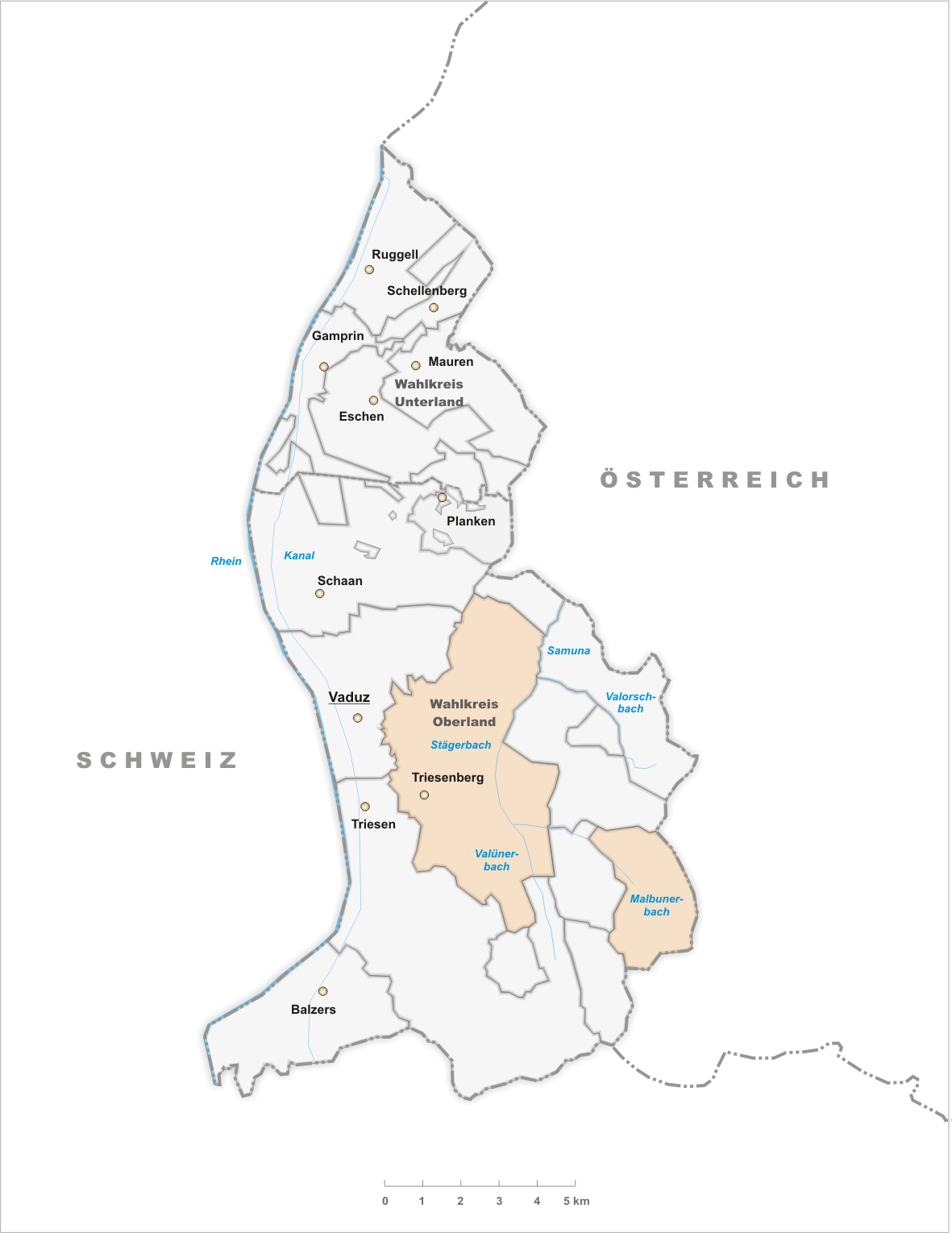 Municipality Triesenberg